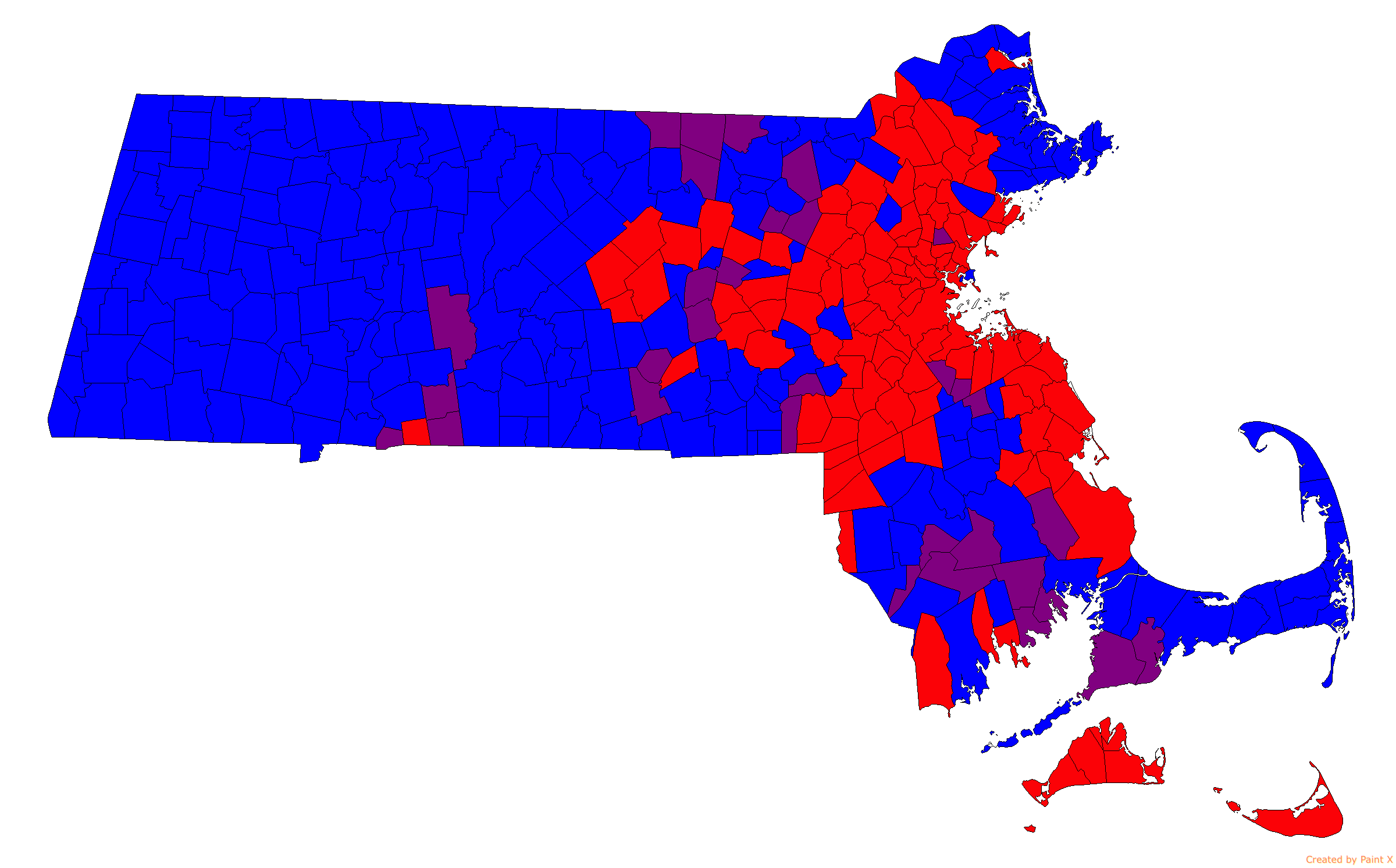 Towns in Massachusetts by open enrollment status of their public high school district for the 2016-2017 academic year. (Does not include the open enrollment status of regional vocational public high schools or public charter high schools.) Towns represented in blue have school districts with a full open enrollment policy. Towns represented in purple have school districts with open enrollment only for specific grades. Towns represented in red have school districts with a closed enrollment policy. Open enrollment status for school districts were procured at